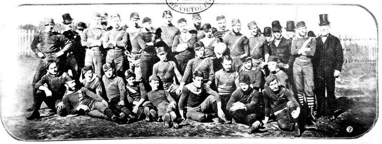 Team of Essendon FC of Australia.